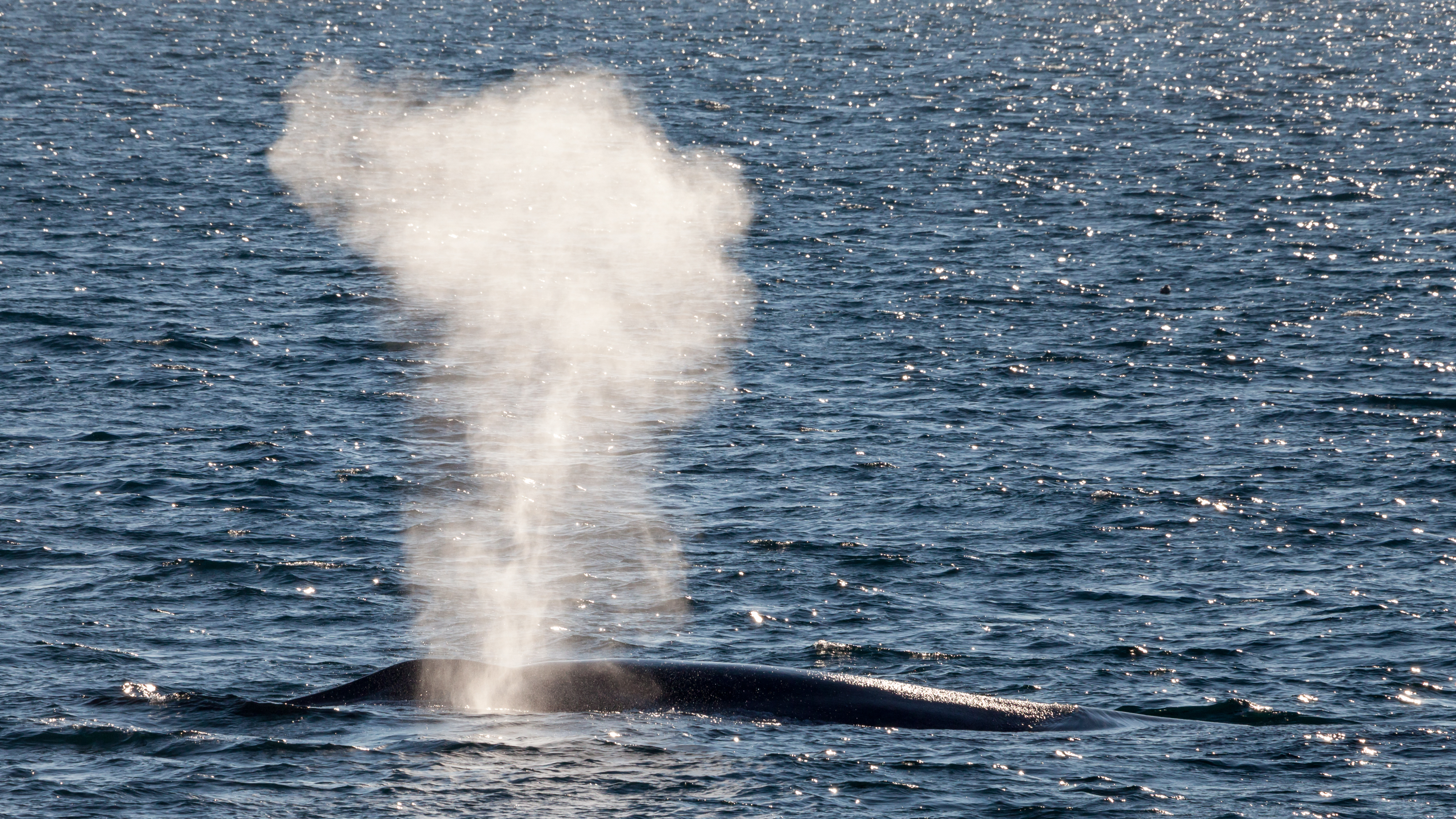 The whale (Balaenoptera musculus) shown here had a clear breathing pattern: it surfaced every 4 minutes, then breathed either 3 or 4 times in intervals of 30 seconds and then dived again.